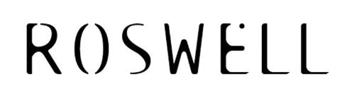 Roswell logo